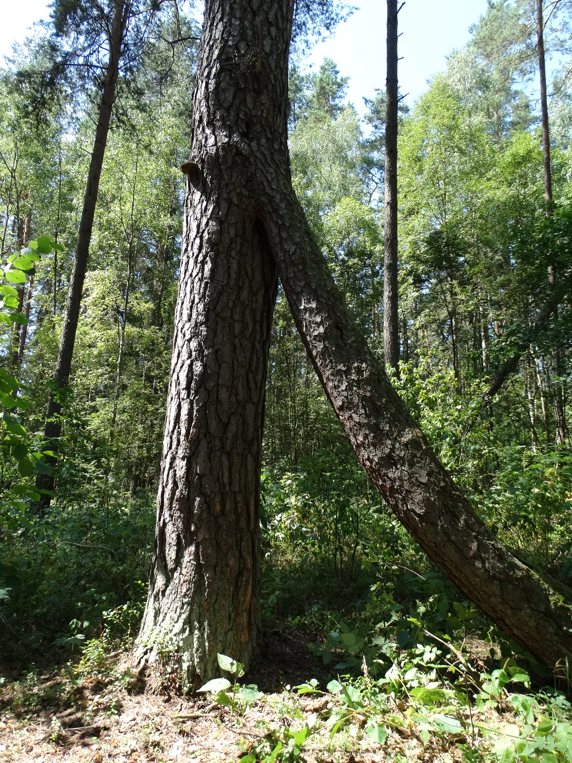 Two-trunk pine, Molėtai district, Lithuania